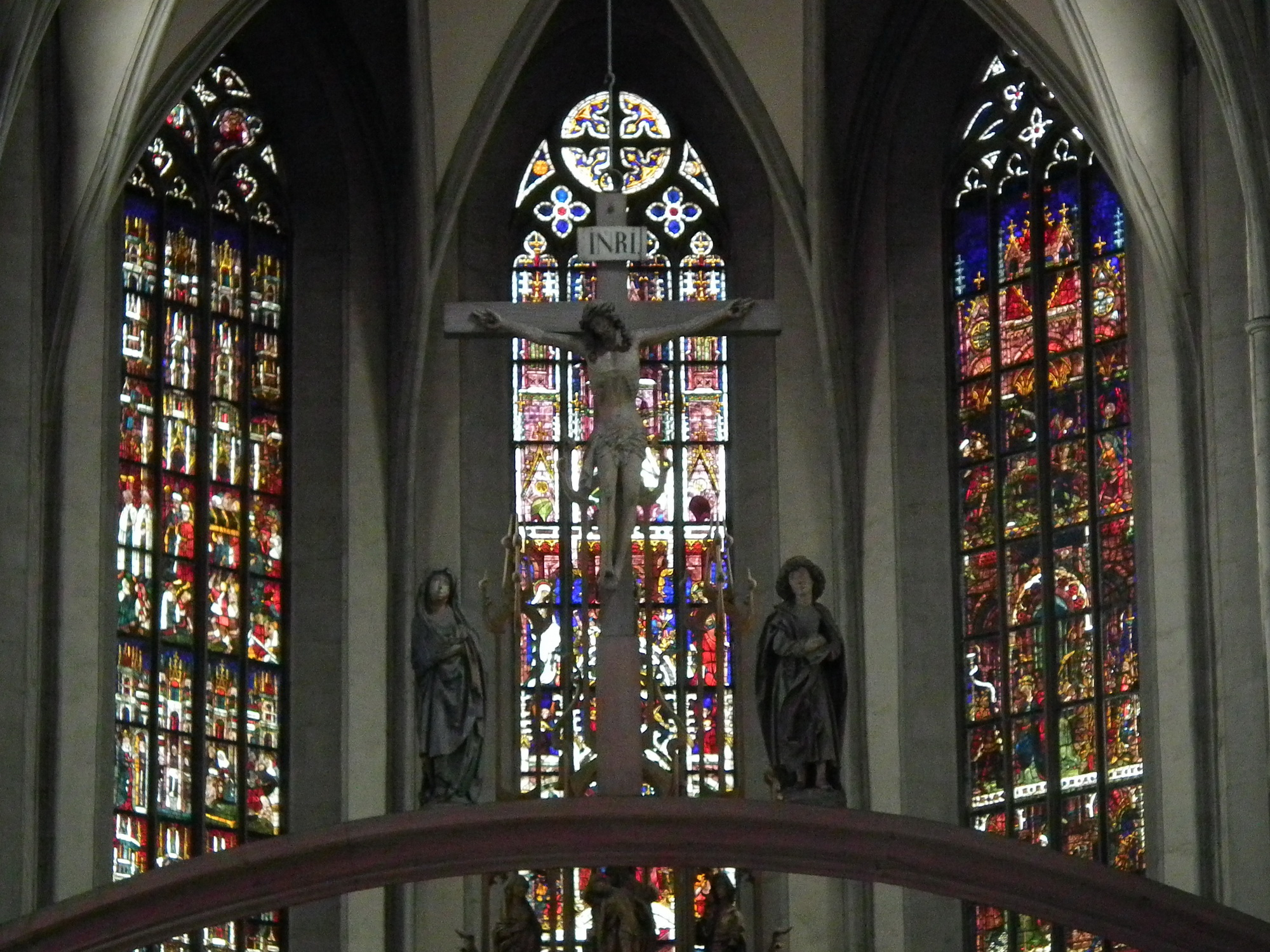 St. Maria Magdalena Münnerstadt Native nameSt. Maria MagdalenaLocationMünnerstadt, Lower Franconia, GermanyCoordinates50° 14′ 56.04″ N, 10° 11′ 44.88″ E Authority control : Q2801564 VIAF: 142822833 LCCN: nr2002023876 WorldCat institution QS:P195,Q2801564